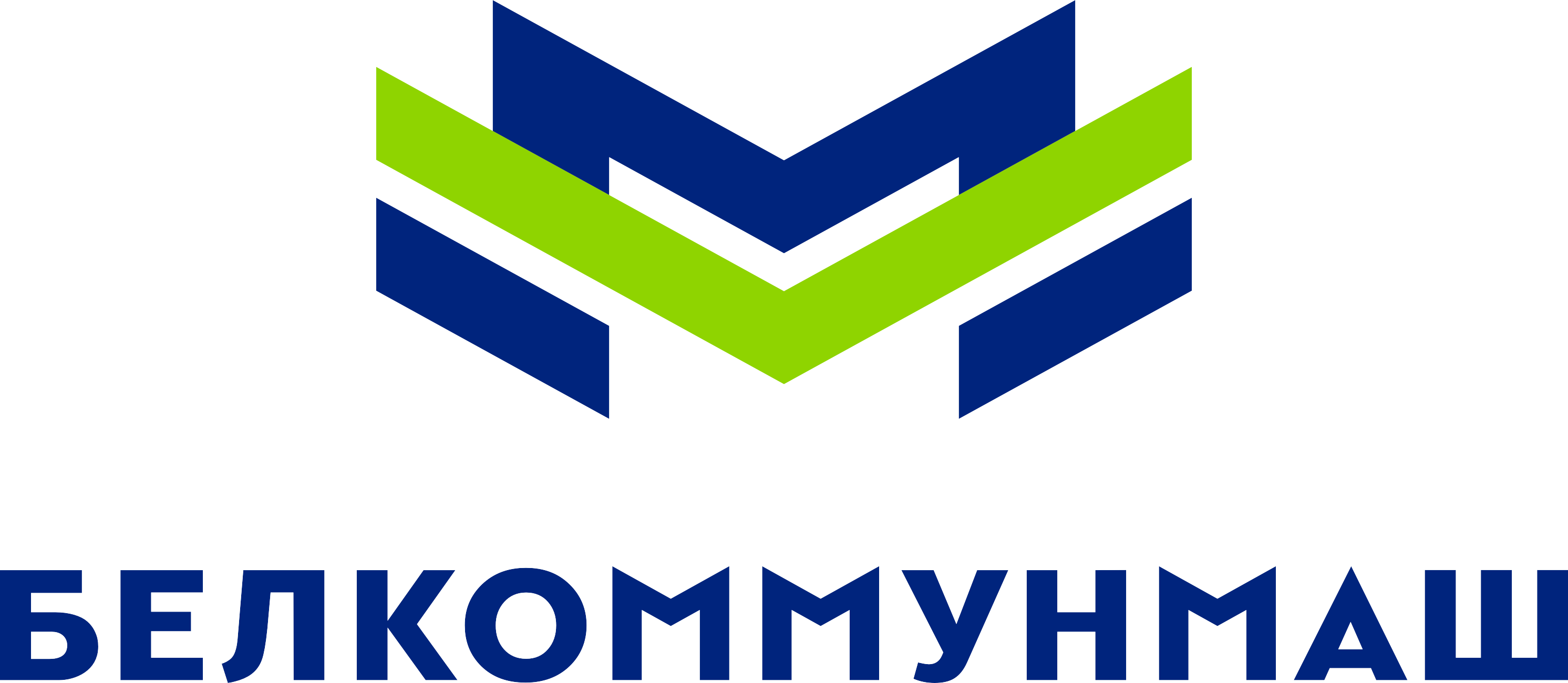 logo of Belkommunmash